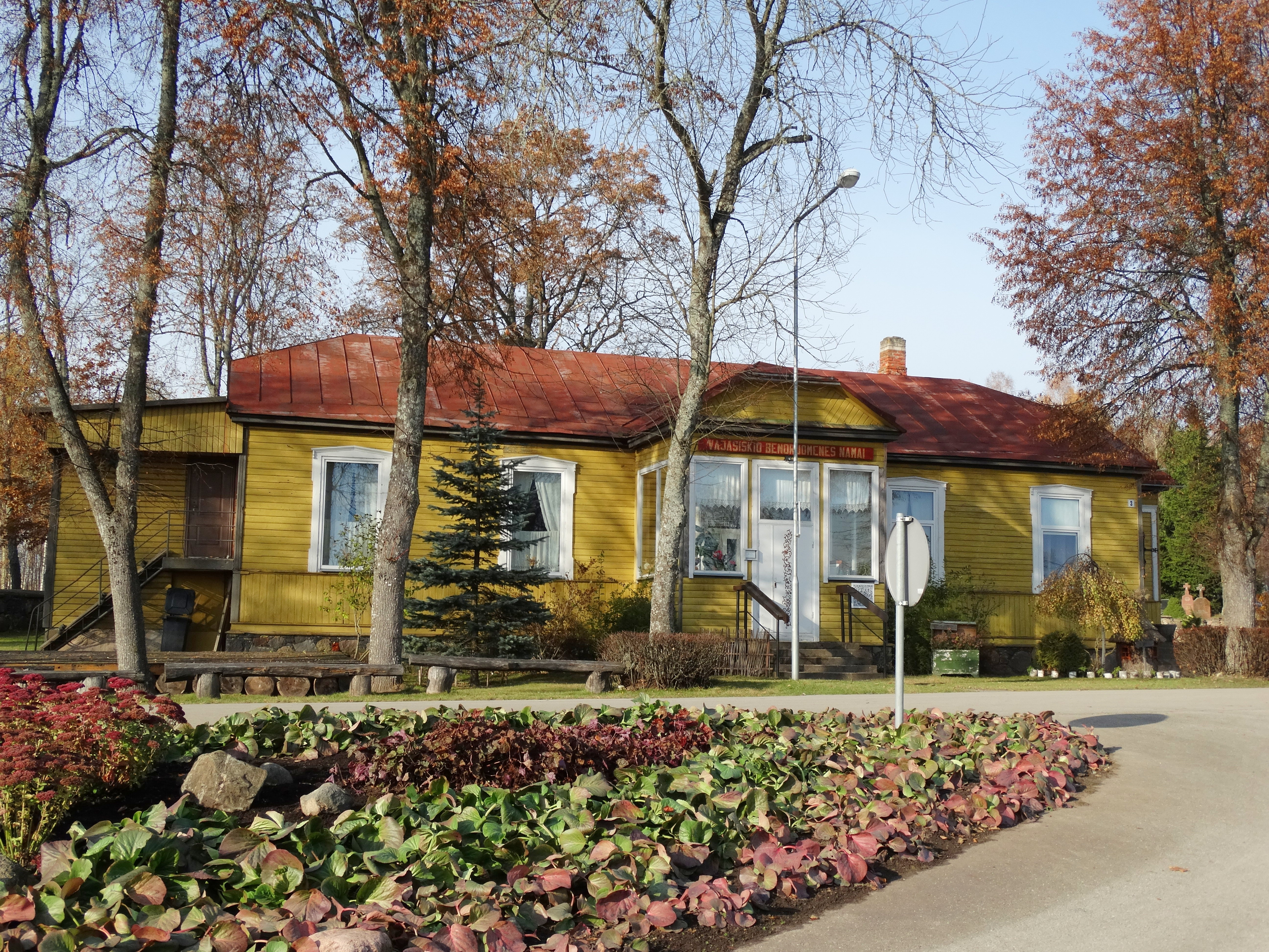 Community house, Vajasiškis, Zarasai district, Lithuania